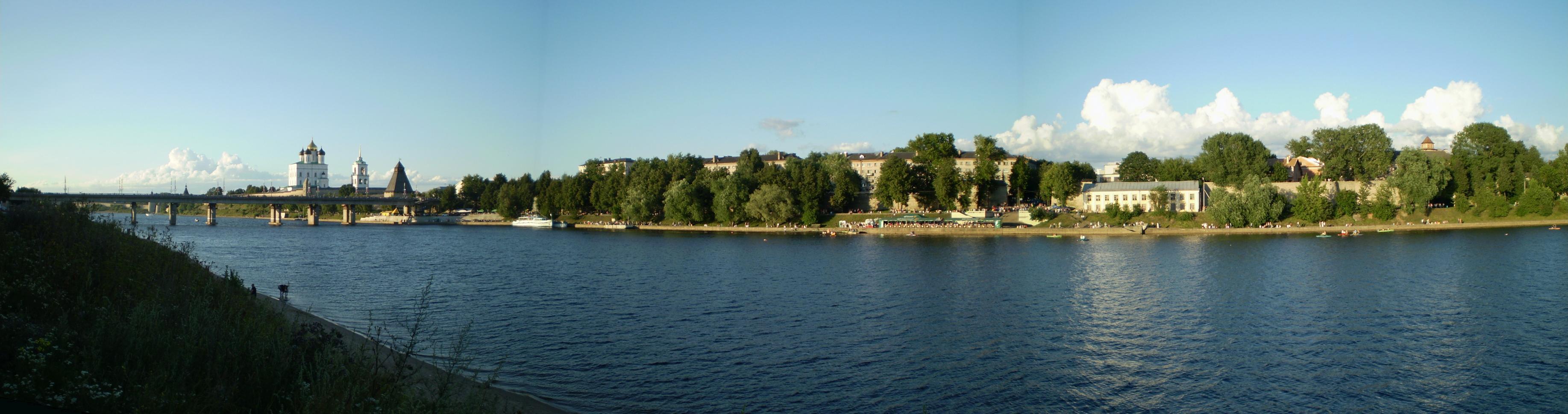 Panoram of Pskov's Kremlin